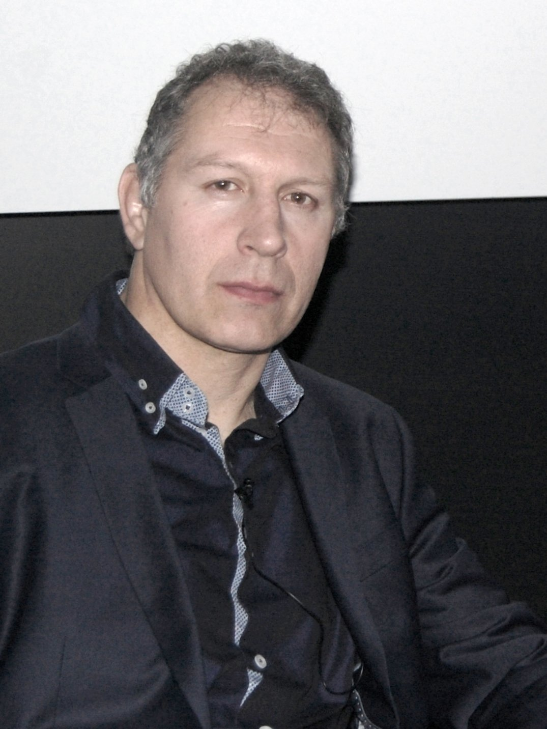 Investigative journalist Mark Williams-Thomas at Birmingham City University